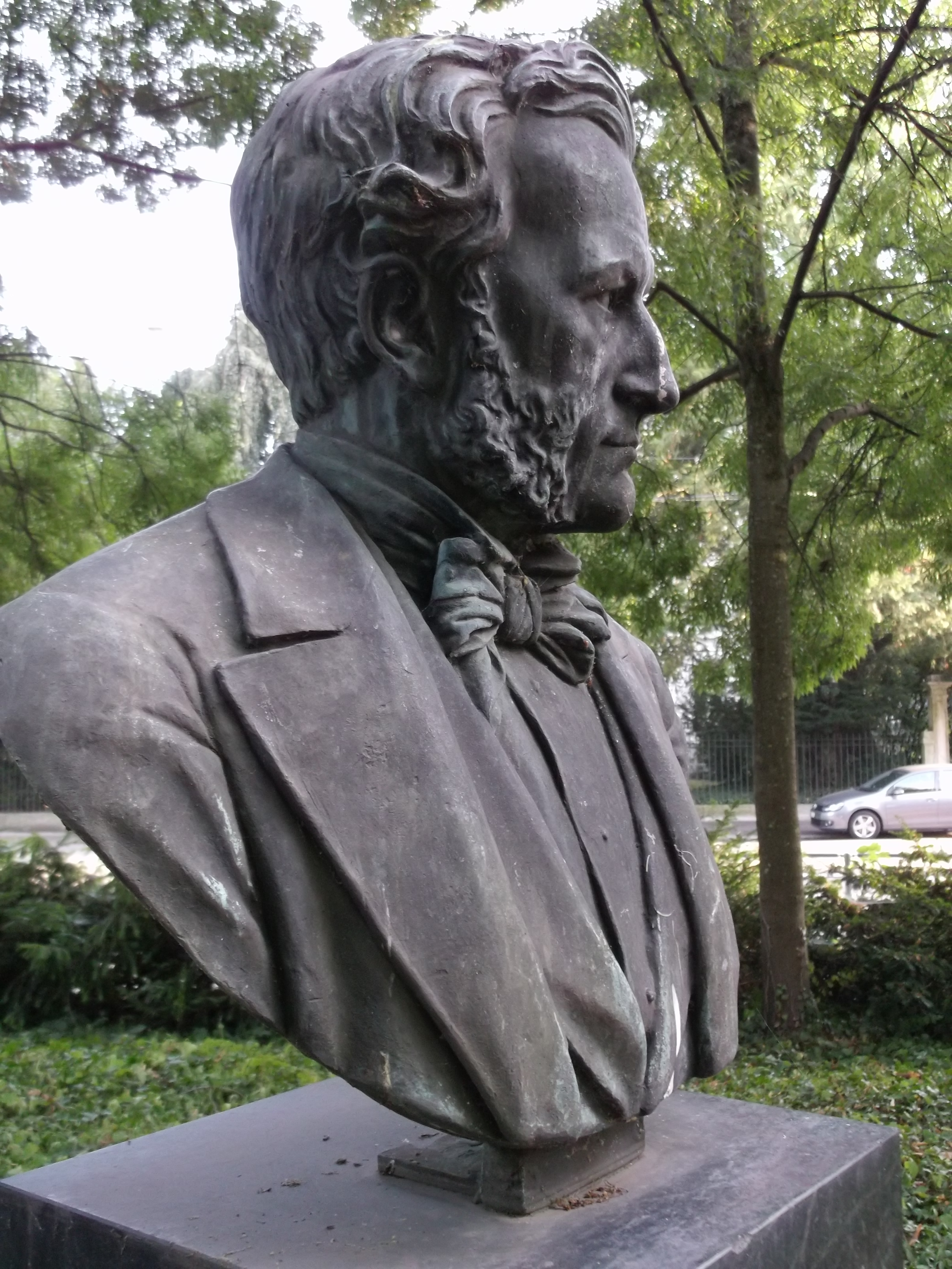 Statue of Karl Sarasin-Sauvain, Basel (Swiss) in Park St-AlbanTor